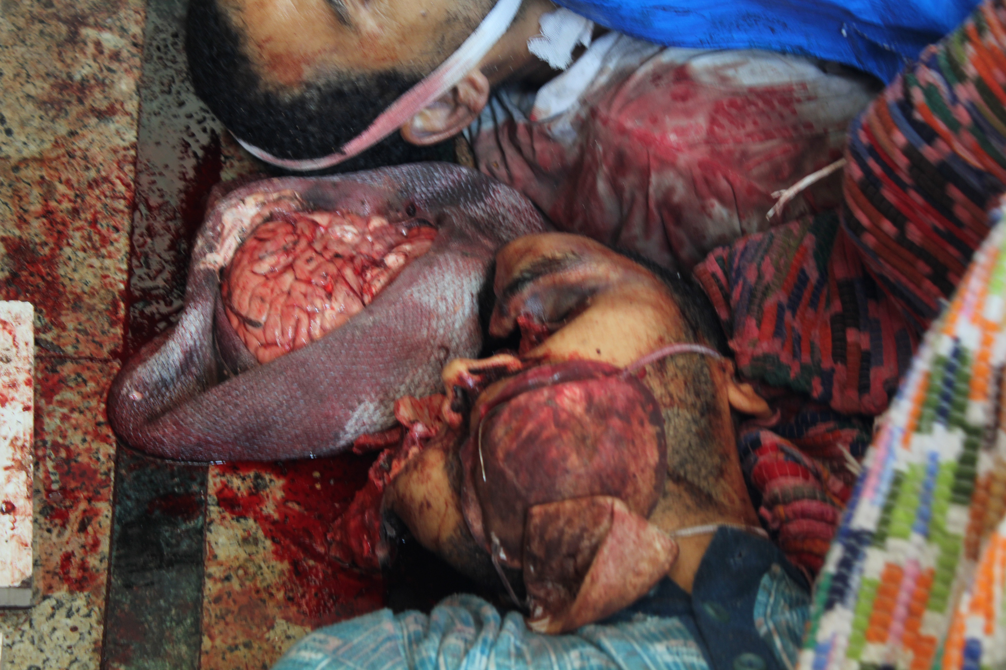 Rabaa field hospital; Addendum: cf. ( , "Rabaa's Massacre - مجزرة فض اعتصام رابعة العدوية صبيحة يوم الأربعاء 14 - 8 - 2013", by "Asmaa Shehata"): (=IMG_7588, taken on August 14, 2013); published description, possibly referring to this picture, in What really happened on the day more than 900 people died in Egypt - The story of a massacre, GlobalPost, 26 February 2014, by Louisa Loveluck, archived from the original on 18 July 2014: "Bullets had drilled large holes through the skulls of dozens of protesters. In one of Asmaa’s photographs, a man's brain has slipped out across the field hospital's bloodied floor."